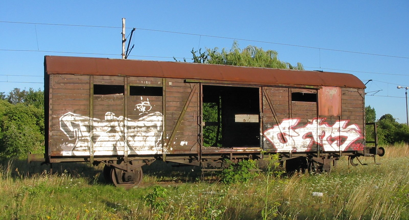 Railroad car